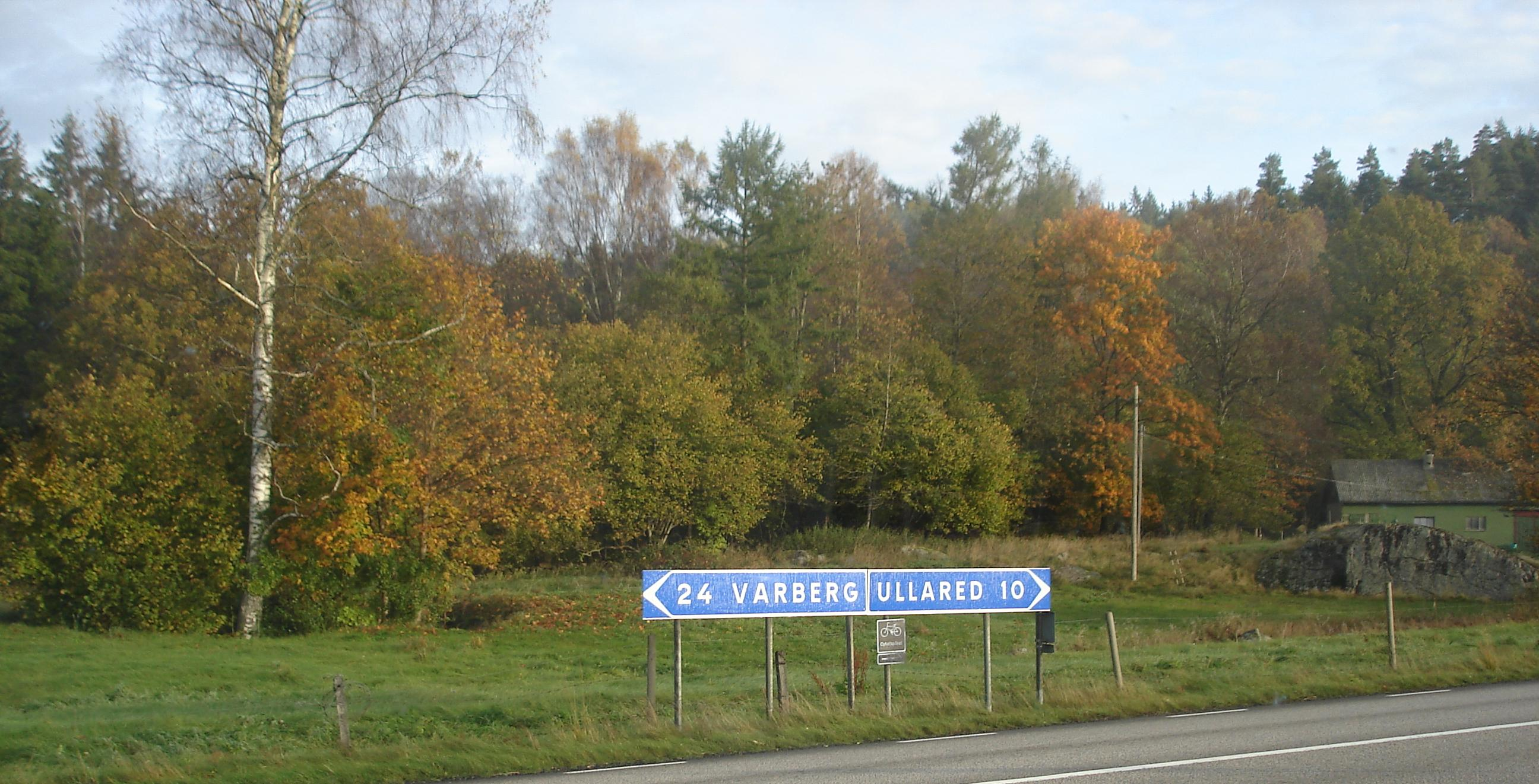 Road 153 in Haksered between Varberg and Ullared, southwest Sweden, Europe